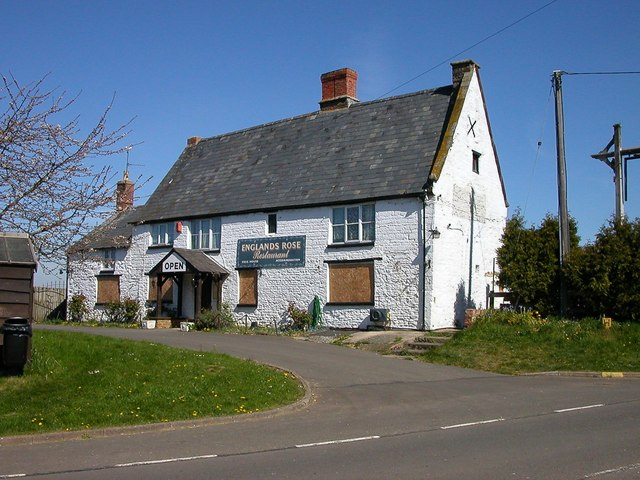 England's Rose (formerly the Red Lion), Moreton Pinkney, Northamptonshire